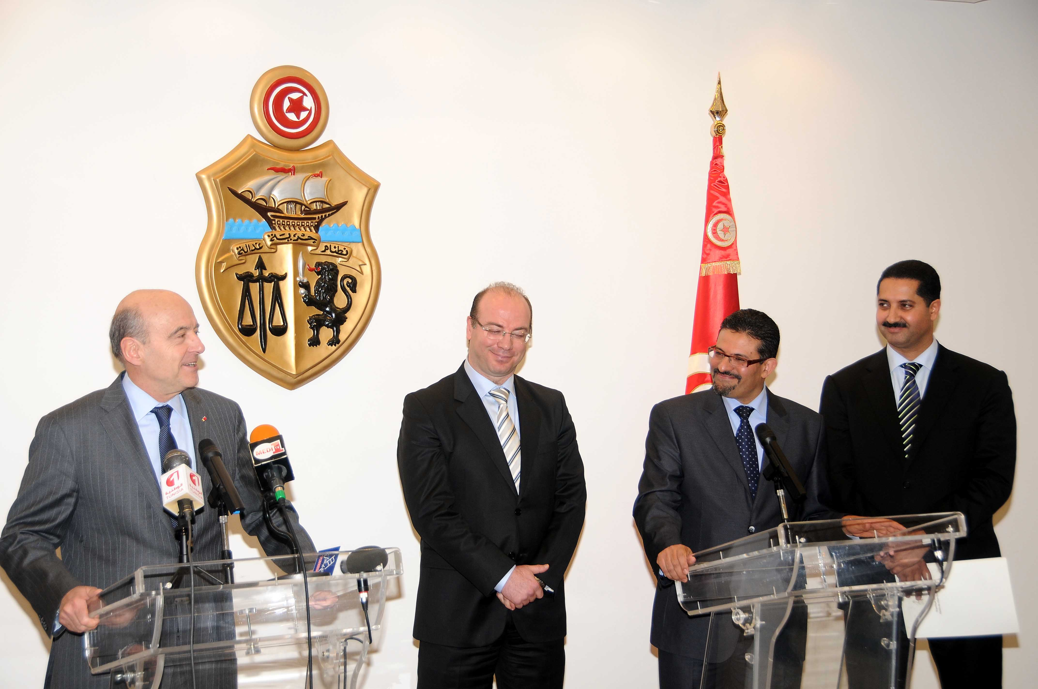 Tunisian and french foreign minister